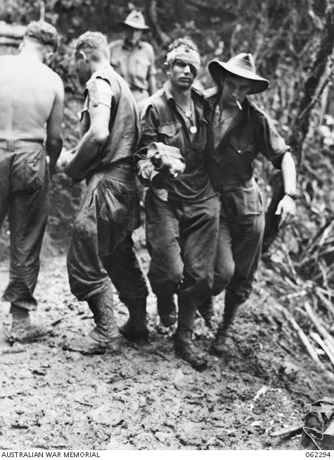 An Australian soldier, wounded during the fighting around The Pimple, in the Finisterre Range, is helped towards medical attention, 27 December 1943.